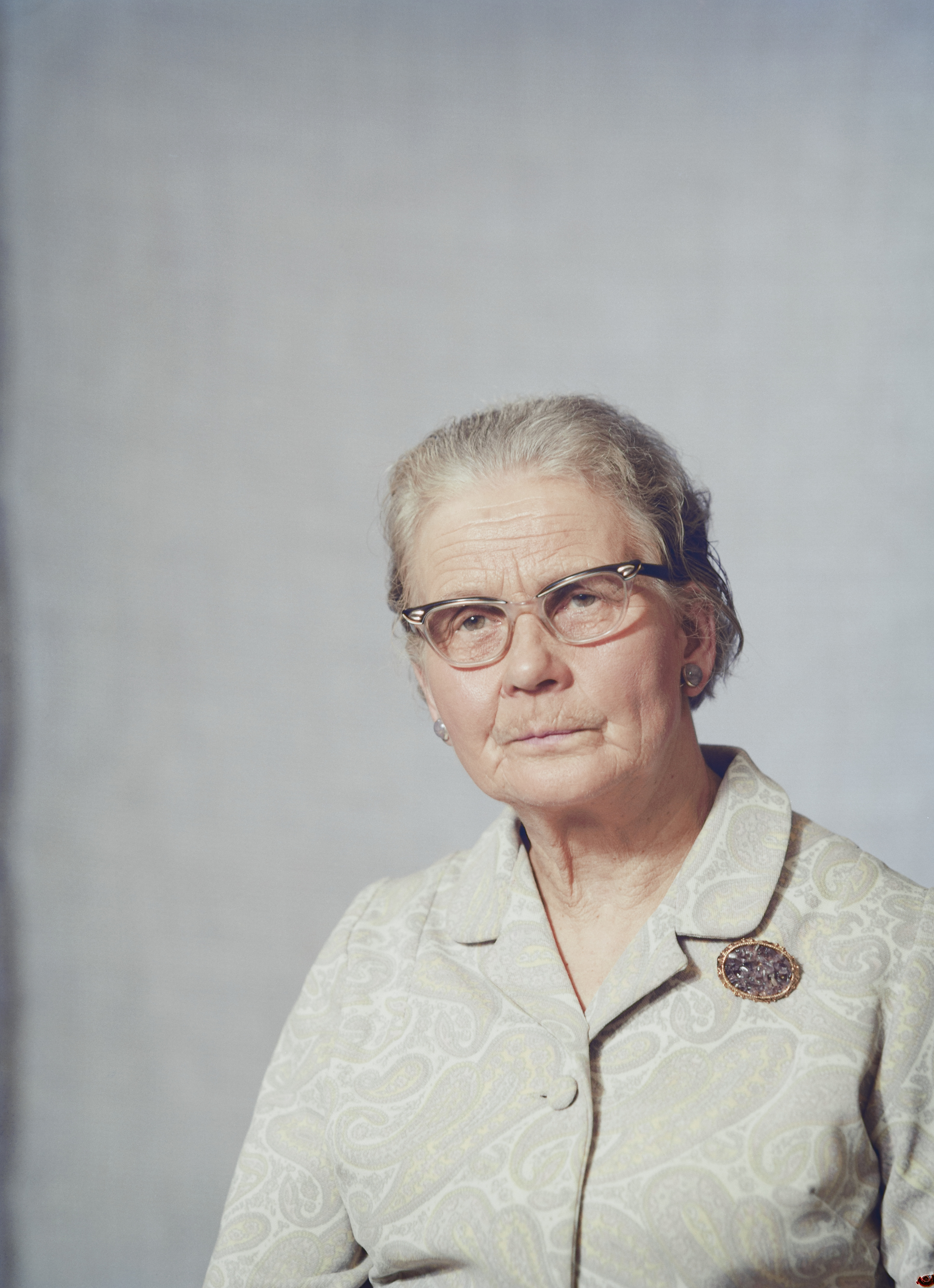 Photograph of the Finnish composer Helvi Leiviskä (1902–1982).